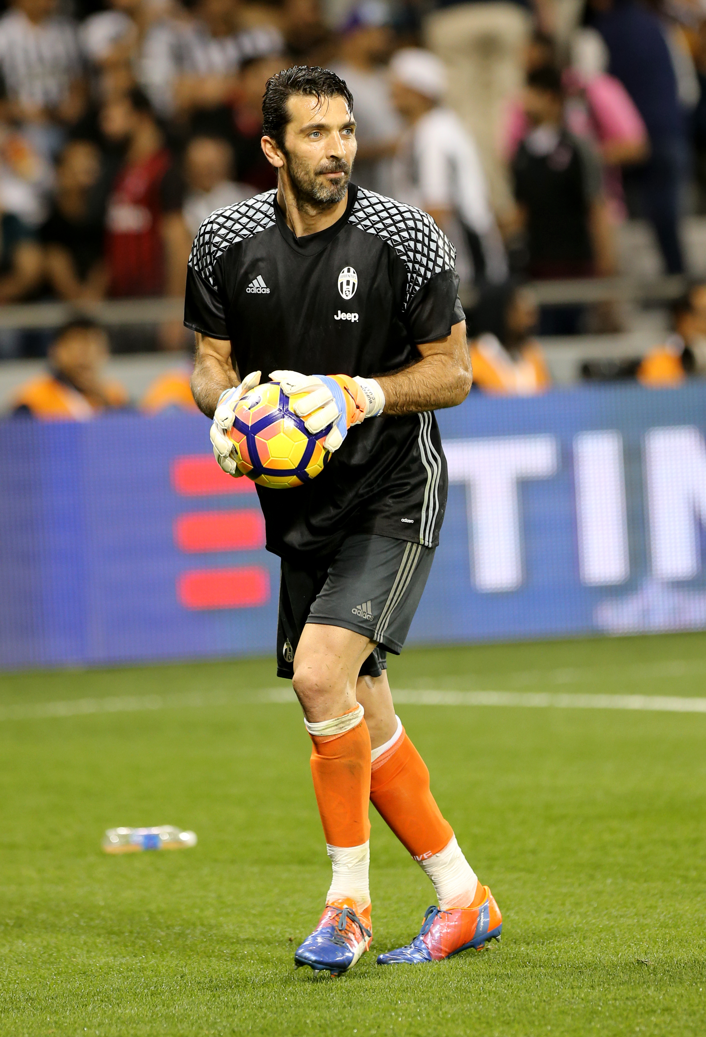 Gianluigi Buffon reacts during the Italian Super Cup match against AC Milan in Doha, Qatar. Doha Stadium Plus - Vinod Divakaran